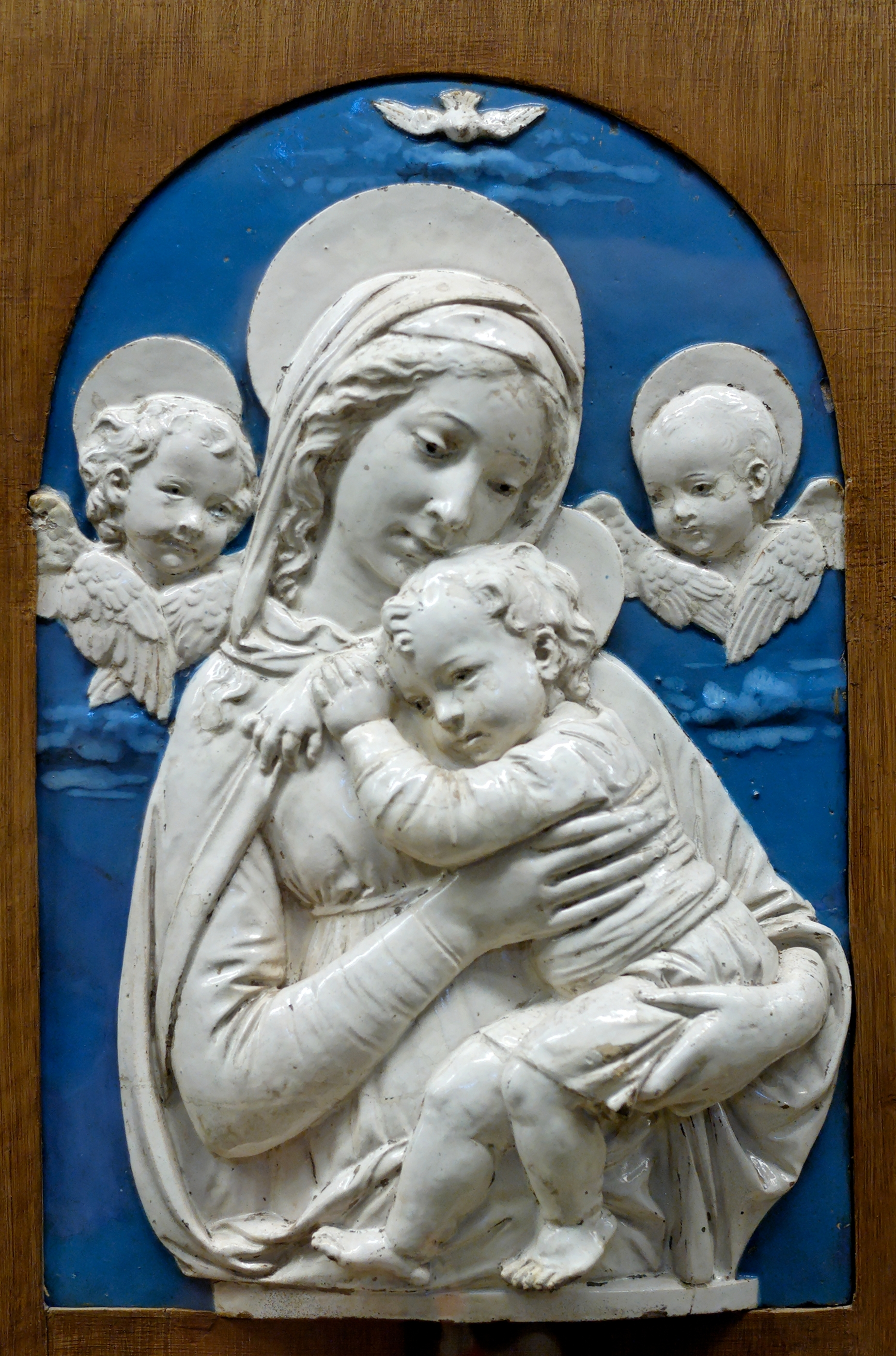 Madonna with Child, the Holy Spirit and two cherubims, enameled terracotta.